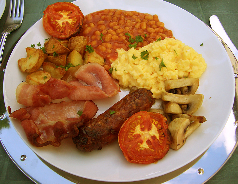 Freshly made English Breakfast with smoked back bakon, pork, sausage, scrambled eggs, fried potatoes, mushrooms, baked beans and fresh tomatoes.